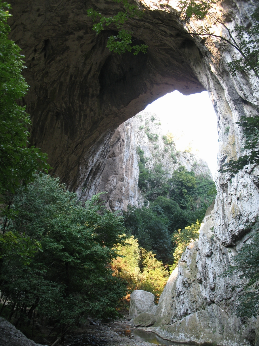 Velika Prerast (Big stone bridge) on Vratna river on Veliki Greben mountain, Serbia.